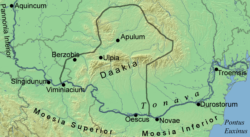 Daakian provinssi, The Roman province of Dacia. The map is based on two maps in "Trajan Optimus Princeps" by Julian Bennett (ISBN 0253214351) on pages 141 and 164